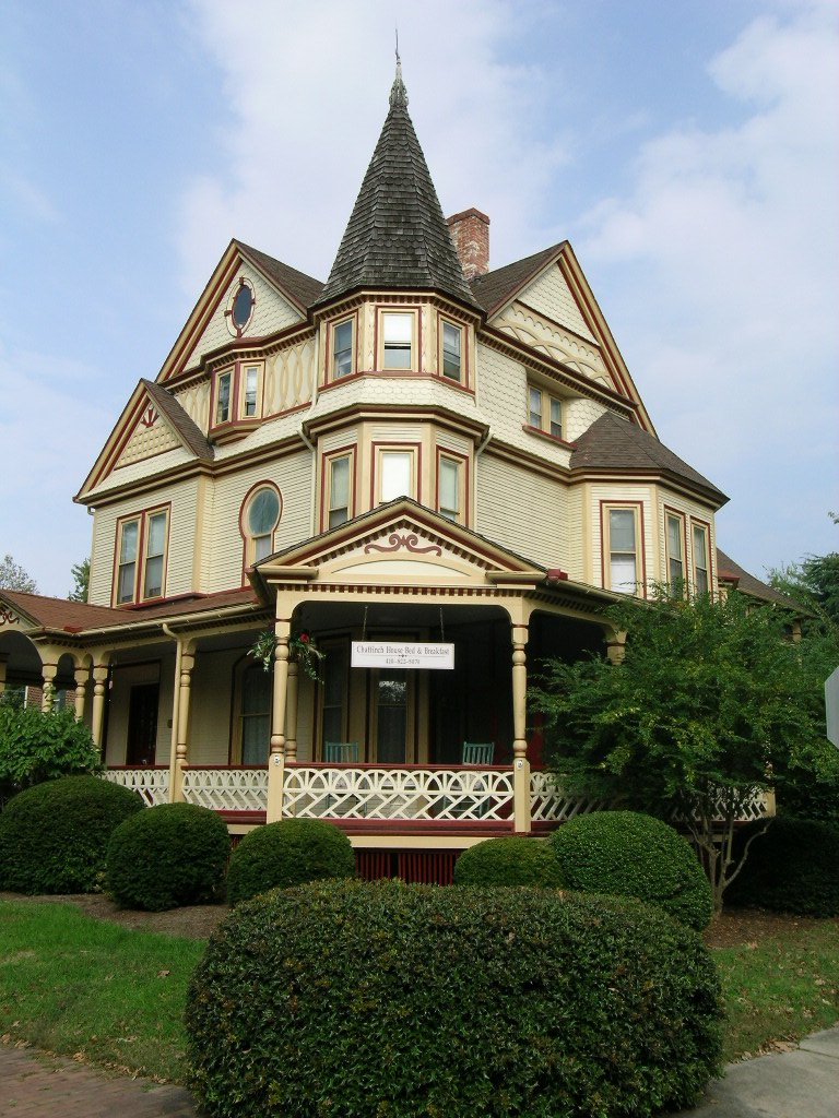 An image of a house from Brooklets Avenue in Easton. It is a bed and breakfast.